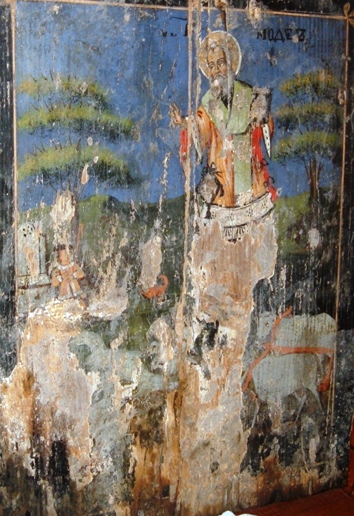 Icon of Saint Modest in Ambelokipi (Zdraltsi).